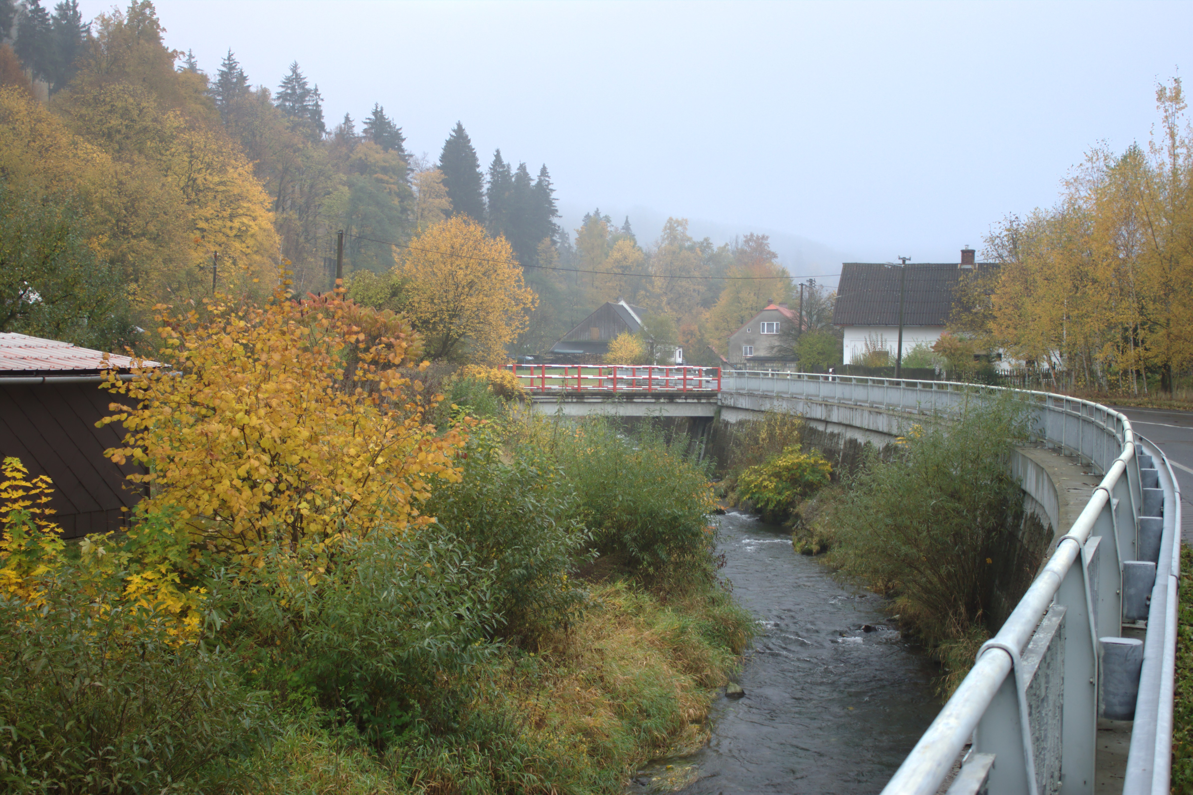 Opavice River in the village of Hejnov in Moravian-Silesian Region, CZ